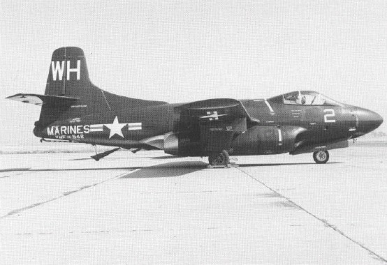 A Douglas F3D-2 Skyknight (BuNo 123761) of Marine night fighter squadron VMF(N)-542 at K-3 (Pohang) airbase during the Korean War.